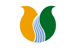 Flag of Tonami Toyama